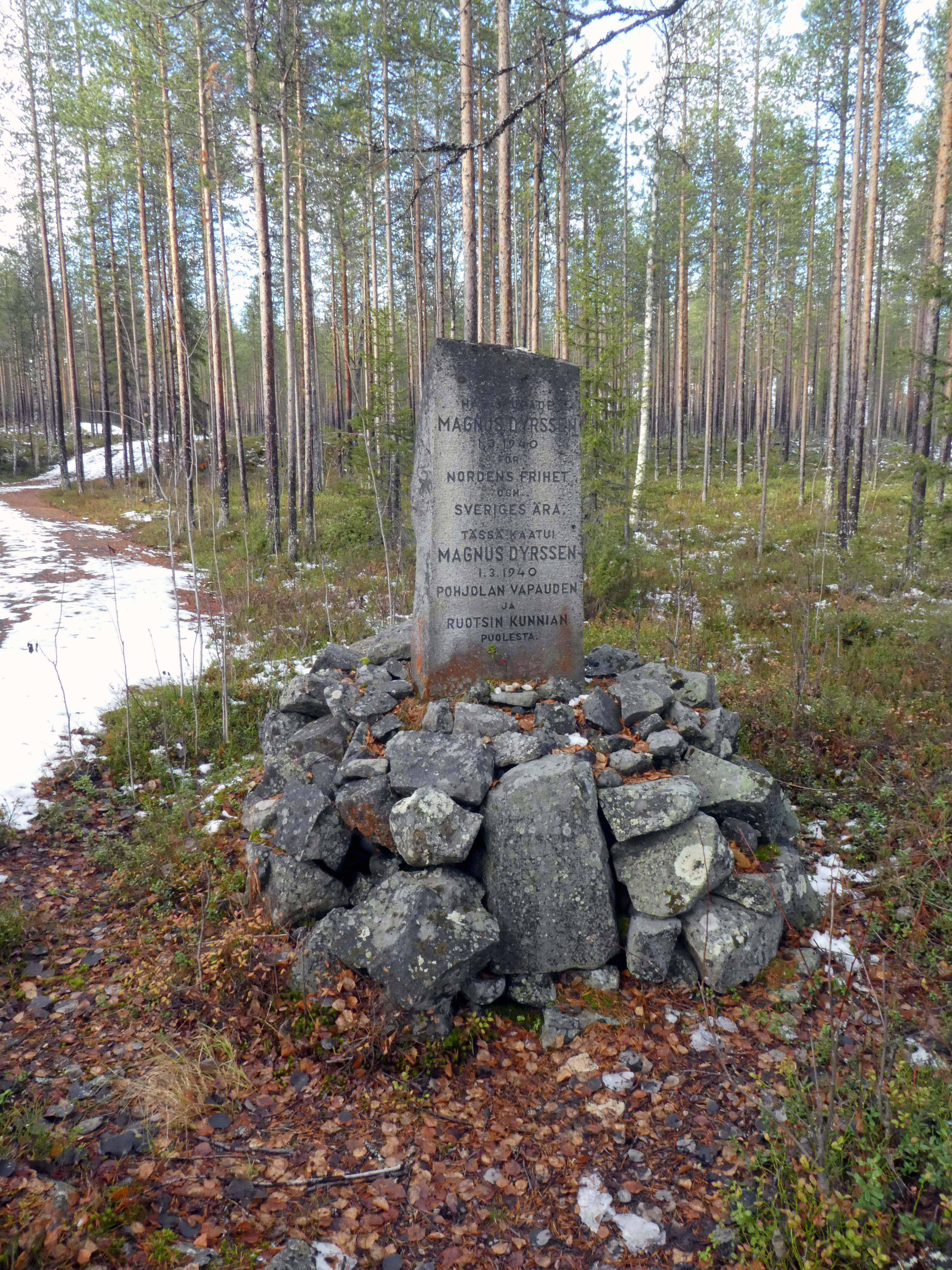 Monument in Märkäjärvi, Finland, over Magnus Dyrssen